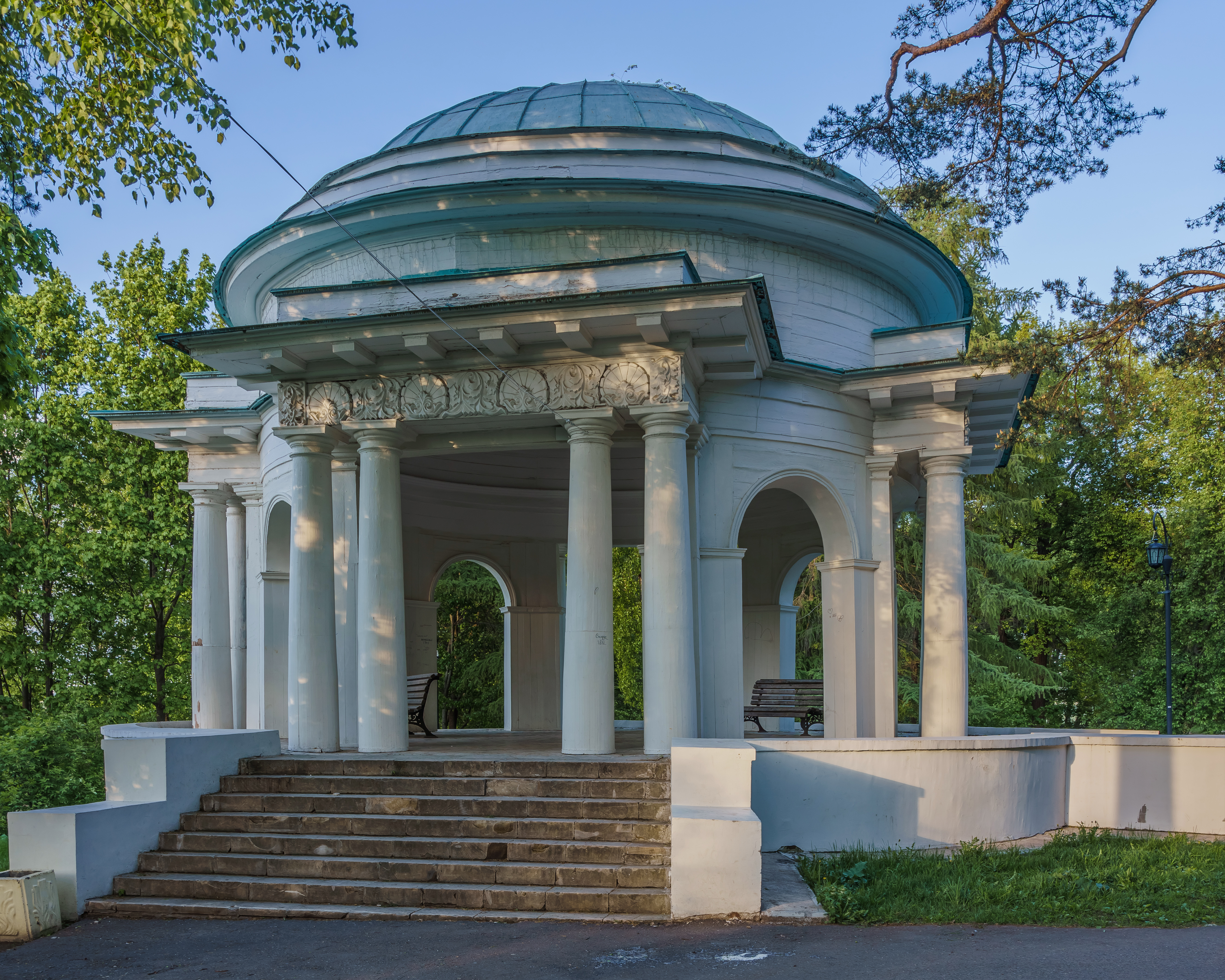 Alexander Garden in Kirov, Russia